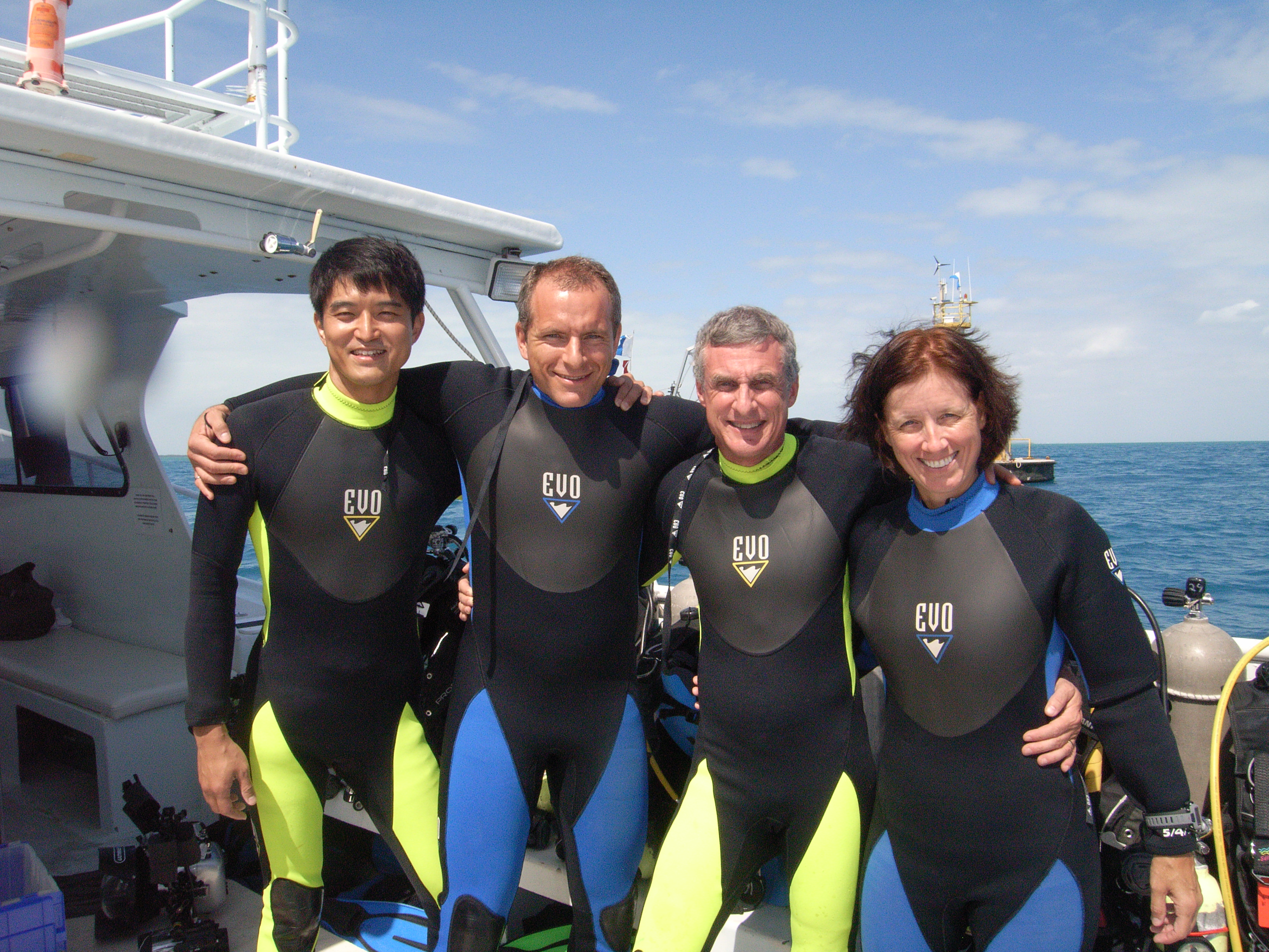 The crew of NEEMO 15, a NASA/NOAA undersea exploration mission. Left to right: JAXA astronaut Takuya Onishi, CSA astronaut David Saint-Jacques, Cornell astrophysicist Steve Squyres, NASA astronaut Shannon Walker.